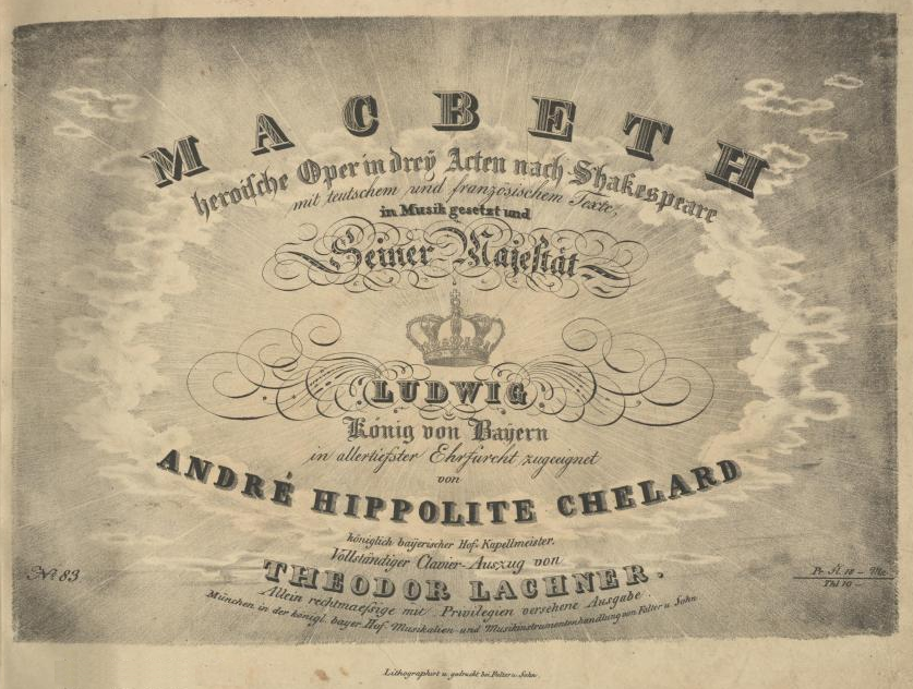 Hippolyte Chelard - Macbeth - titlepage of the piano reduction - Munich 1828